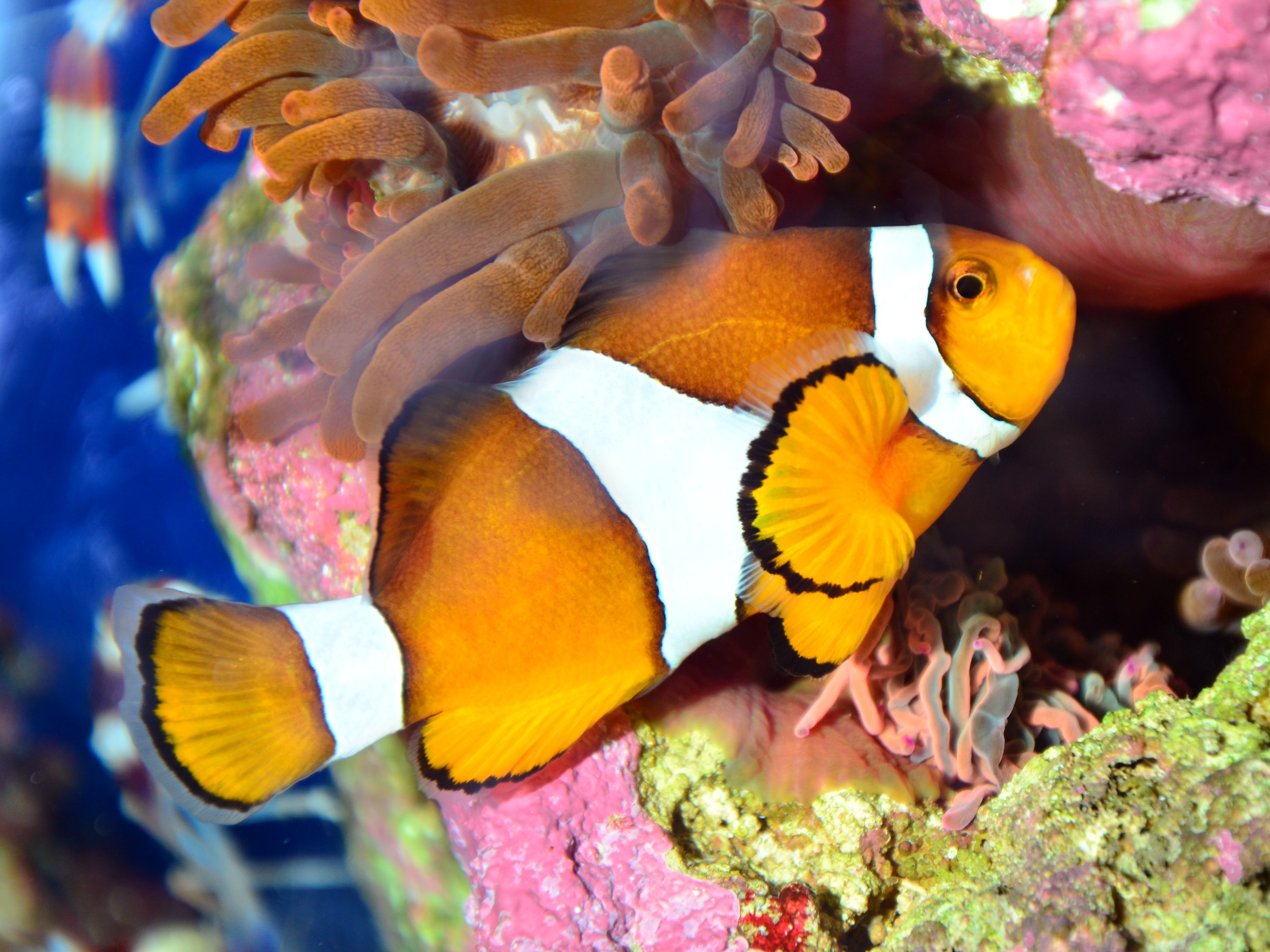 Ocellaris clownfish